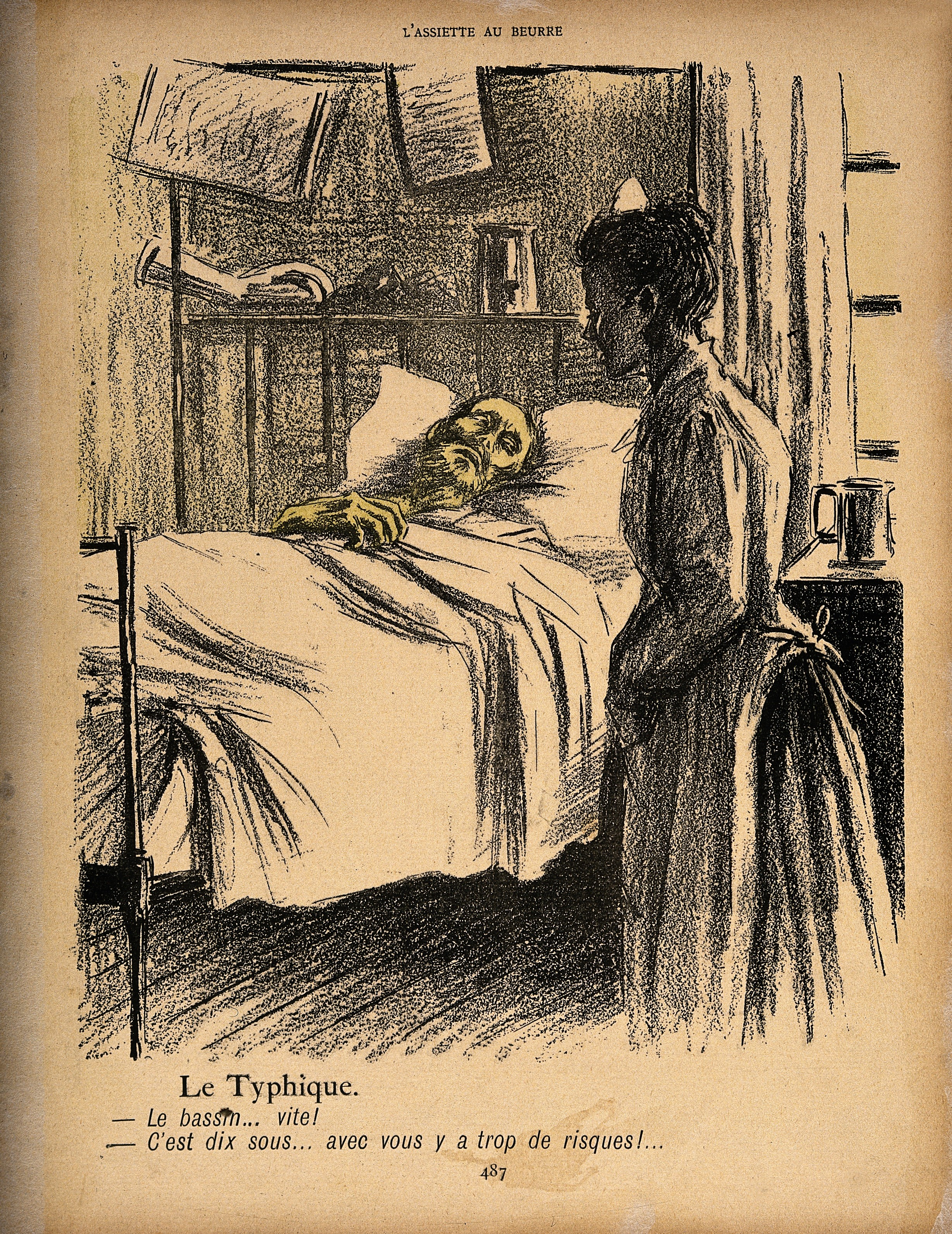 A contagiously ill man asks for the bed-pan; the nurse tells him that it will cost ten sous for the risk. Colour photomechanical reproduction of a lithograph by Noël Dorville, c. 1901. Iconographic Collections Keywords: Nurses; Noël Dorville; Infection; humorous pictures; photomechanical reproductions; SICK; typhus fever; communicable diseases - hospit; Communicable Diseases